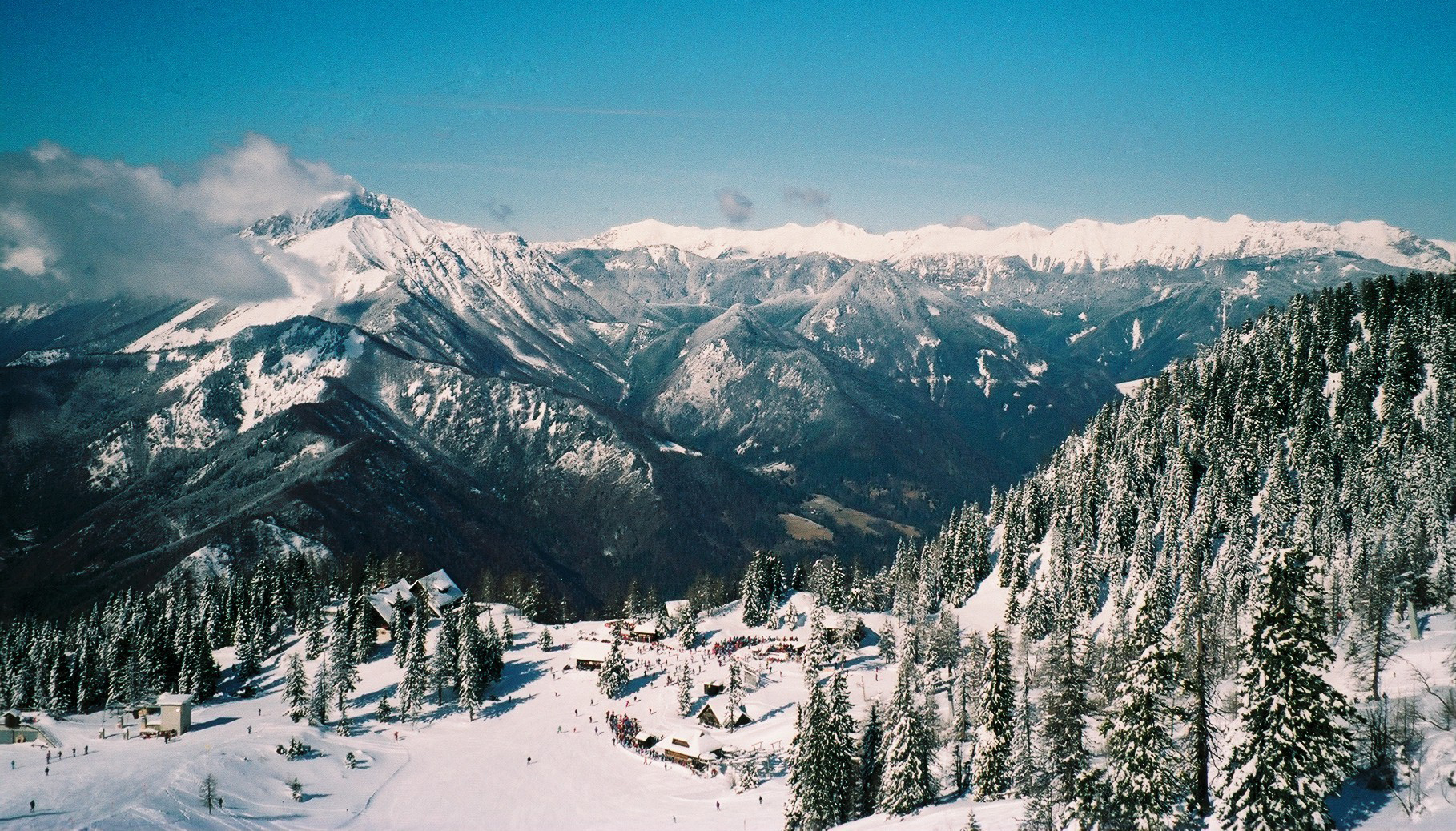 Krvavec ski resort, Slovenia